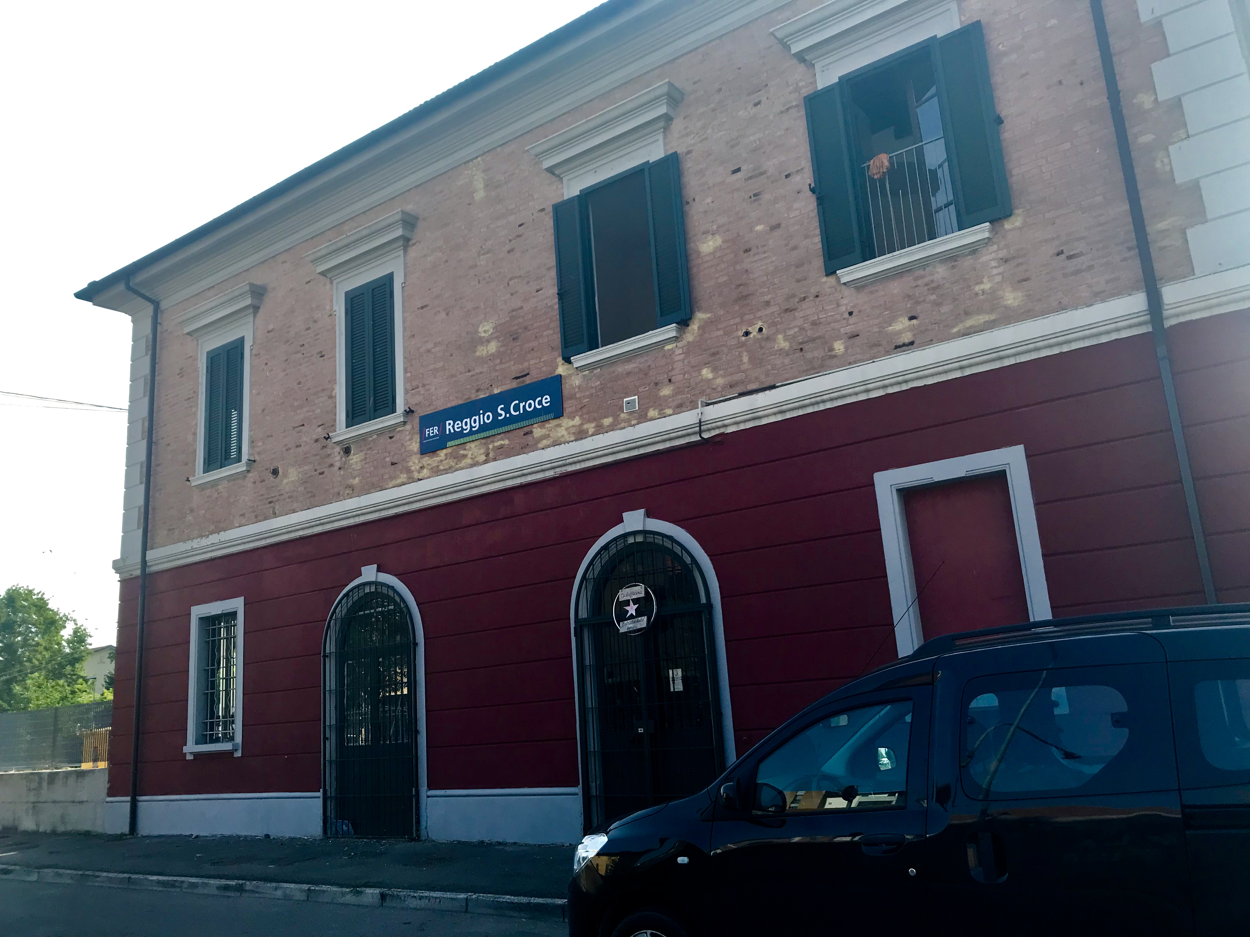 Reggio Emilia Santa Croce train station (3)